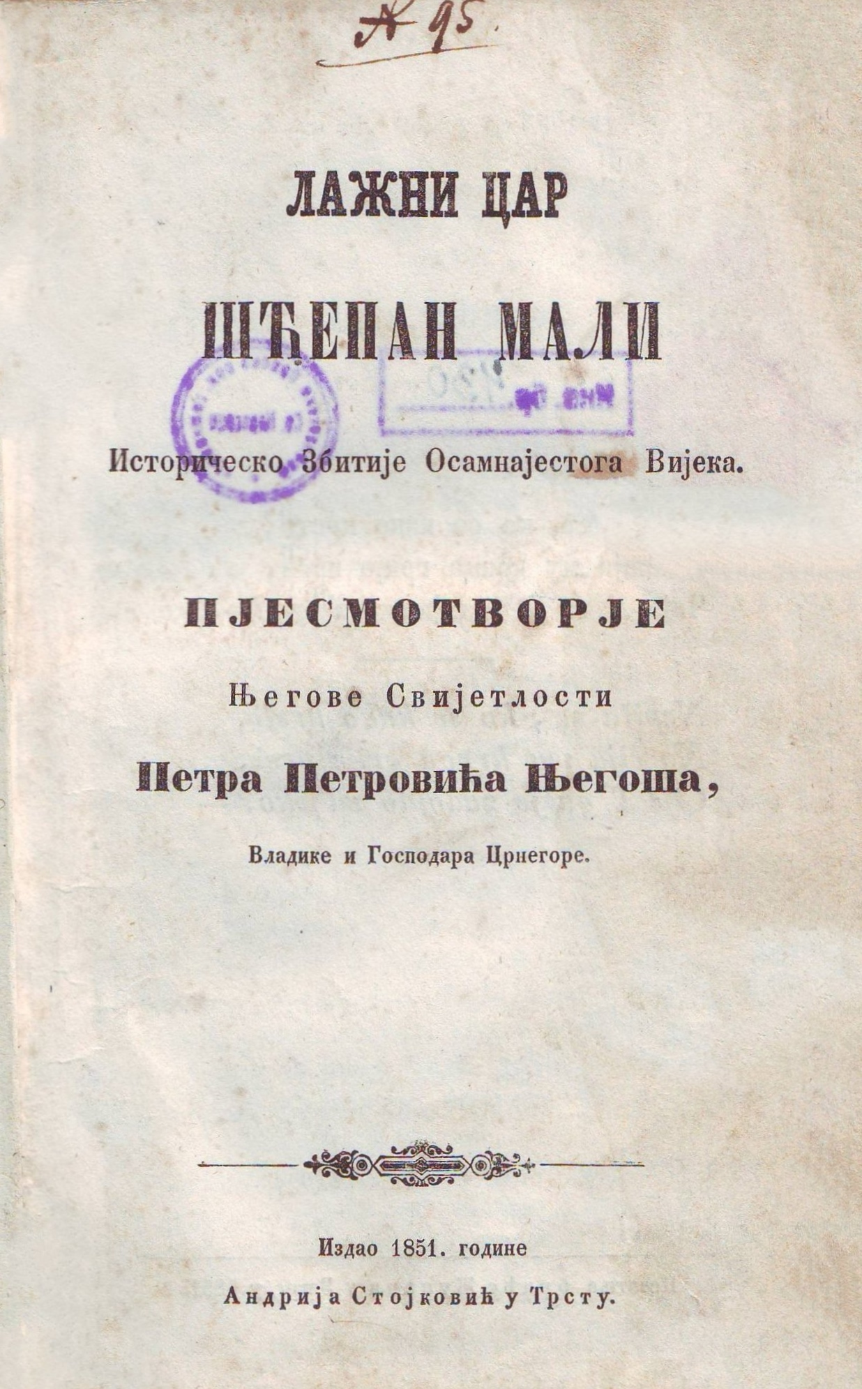 Cover of Lažni car Šćepan Mali (1851) by Petar II Petrović-Njegoš. Srpski (latinica): Naslovna strana knjige Lažni car Šćepan Mali (1851) Petra II Petrovića-Njegoša.